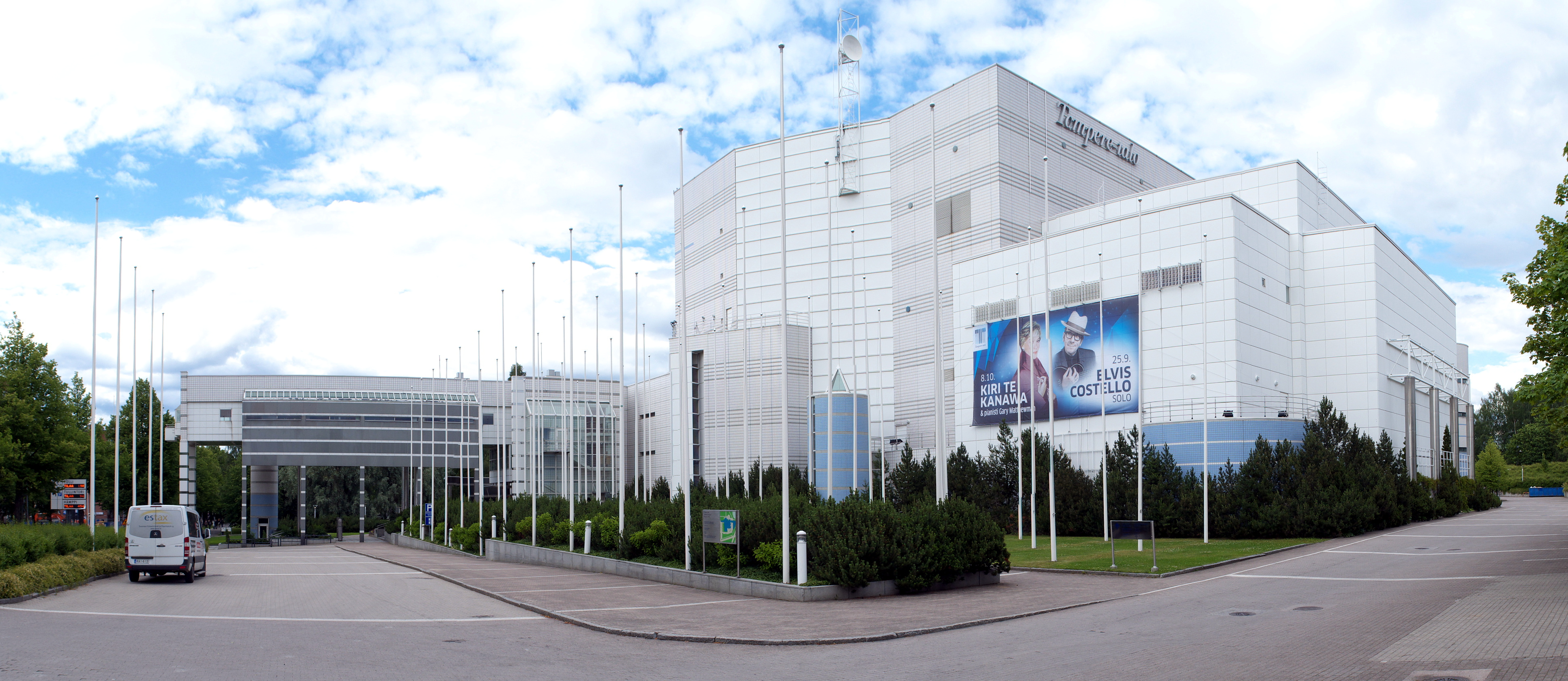 Tampere hall panorama taken 2014. EXIF info is from first image from left.